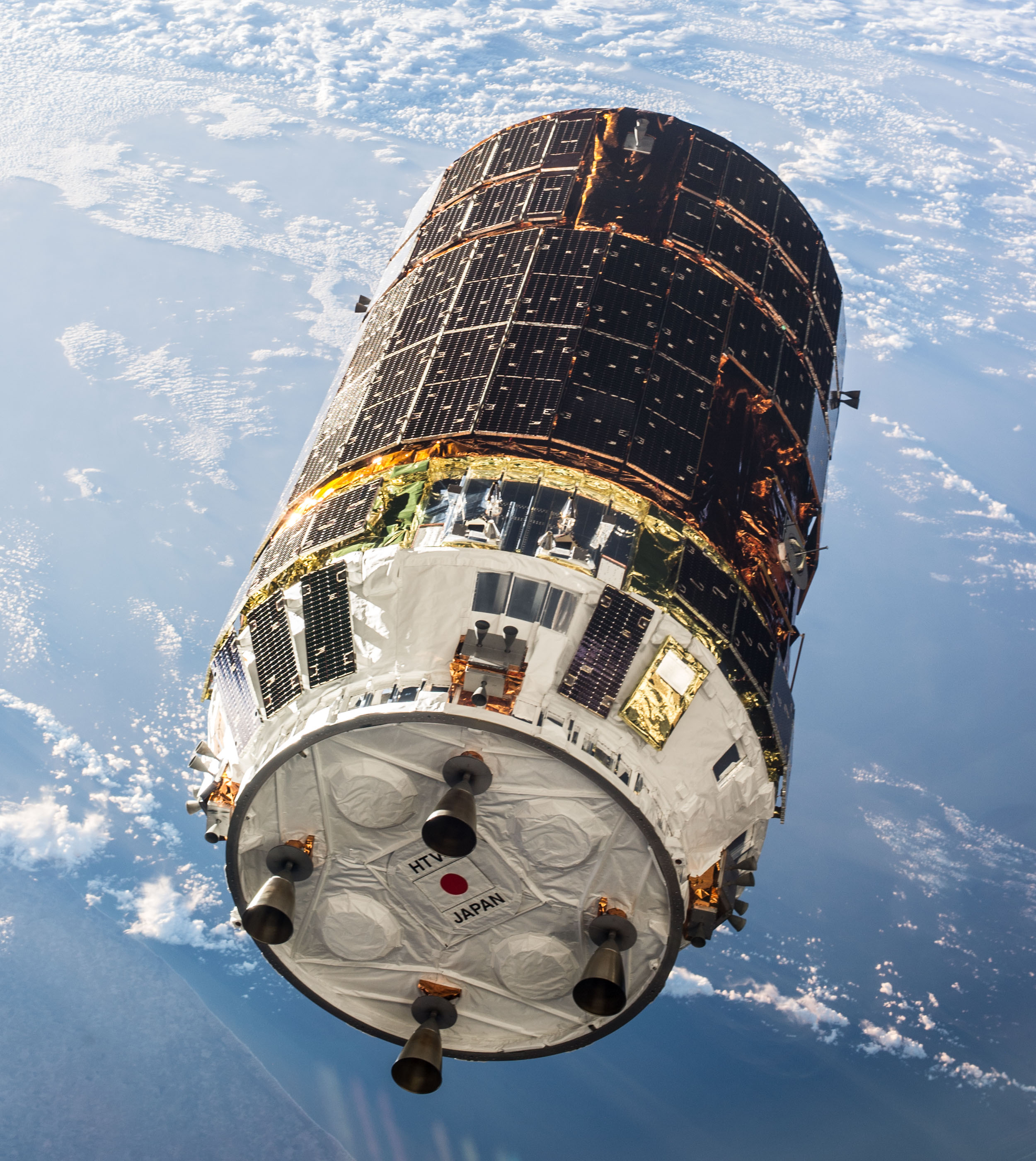 The unpiloted Japanese "Kounotori" H2 Transfer Vehicle-4 (HTV-4) approaches the International Space Station. The HTV, a 33-foot-long, 13-foot-diameter unmanned cargo transfer spacecraft, is delivering 3.6 tons of science experiments, equipment and supplies to the orbiting complex. HTV-4 launched from the Tanegashima Space Center in southern Japan on Aug.3 at 3:48 p.m. (Aug. 4 at 4:48 a.m., Japan time). A blue and white part of Earth provides the backdrop for the scene.